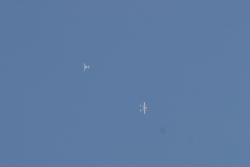 White Knight with SpaceShipOne climbs to release altitude, with Starship chase plane following, for SpaceShipOne flight 15P. 55 minutes before SpaceShipOne release. Sorry about the dust spec below-right. Photo taken by Nathan Schmidt June 21 2004 6:55:33 am, Mojave CA